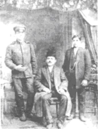 Angel Tasev from Krushevo (Sintika) in the middle